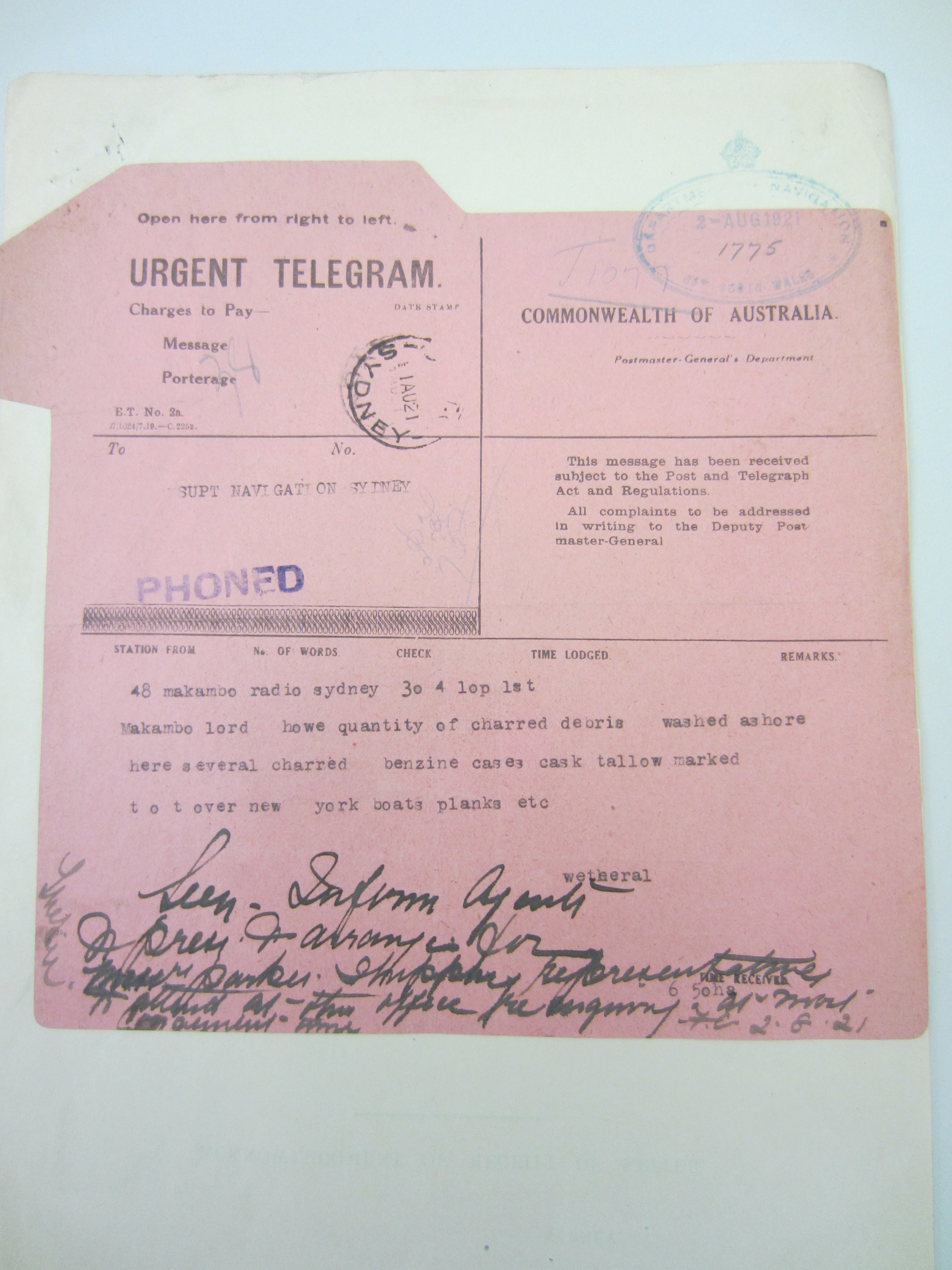 Original of telegram sent by radio from SS Makambo to the Superintendent of Navigation with the first news of the fate of the SS Canastota the discovery of flotsam at Lord Howe island on 1 August 1921.